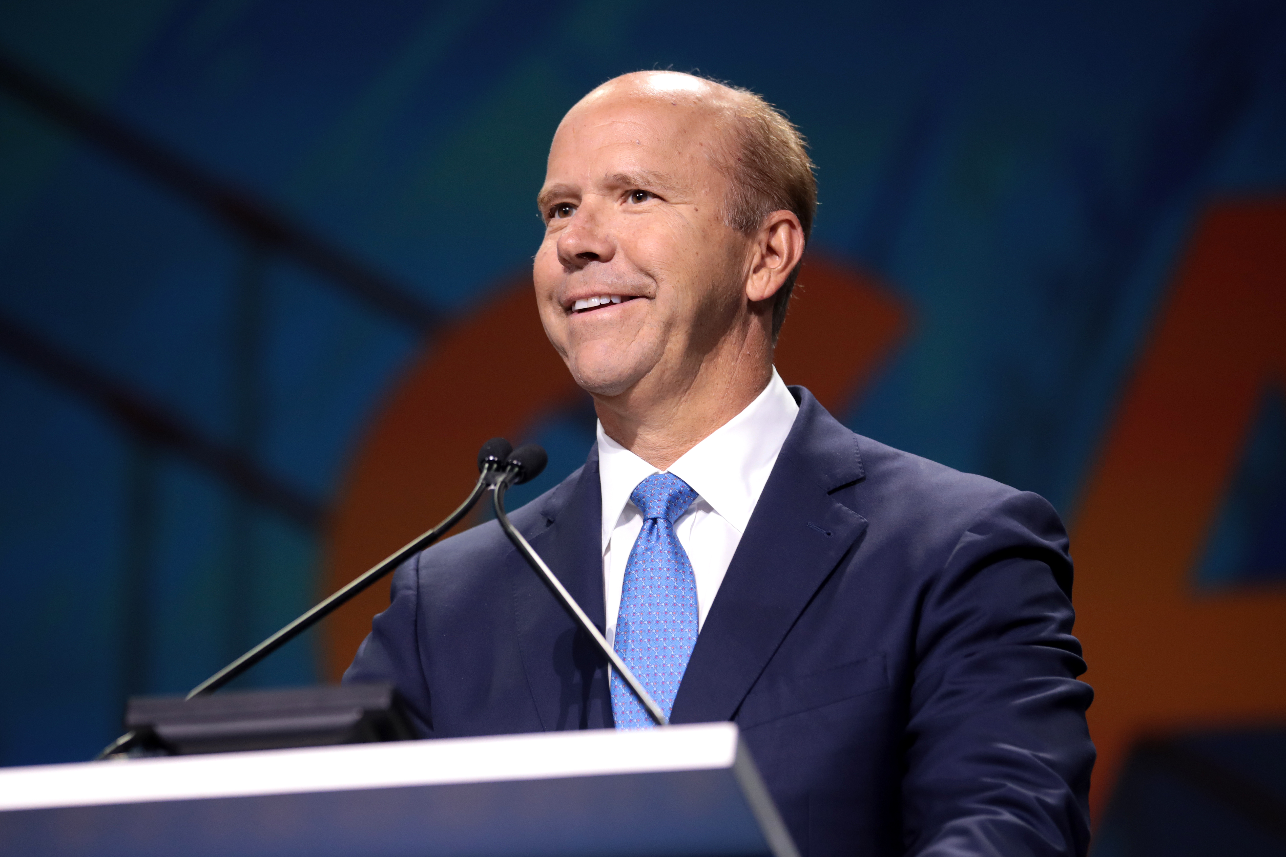 Former U.S. Congressman John Delaney speaking with attendees at the 2019 California Democratic Party State Convention at the George R. Moscone Convention Center in San Francisco, California.